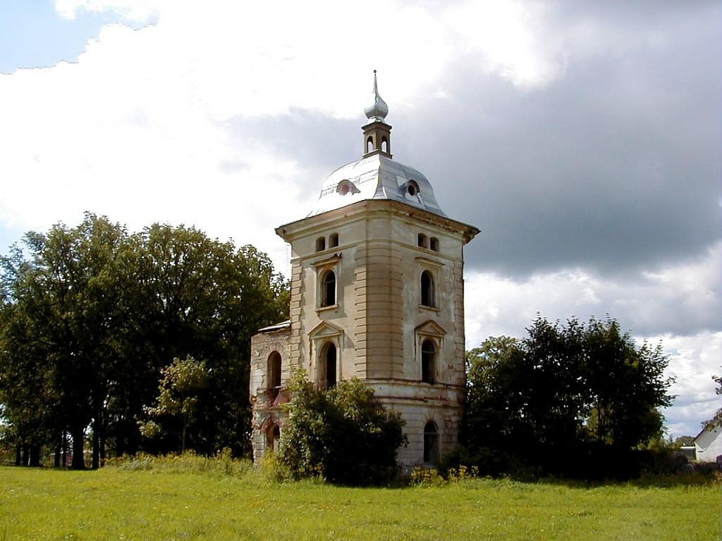 Valmiermuiža Manor tower